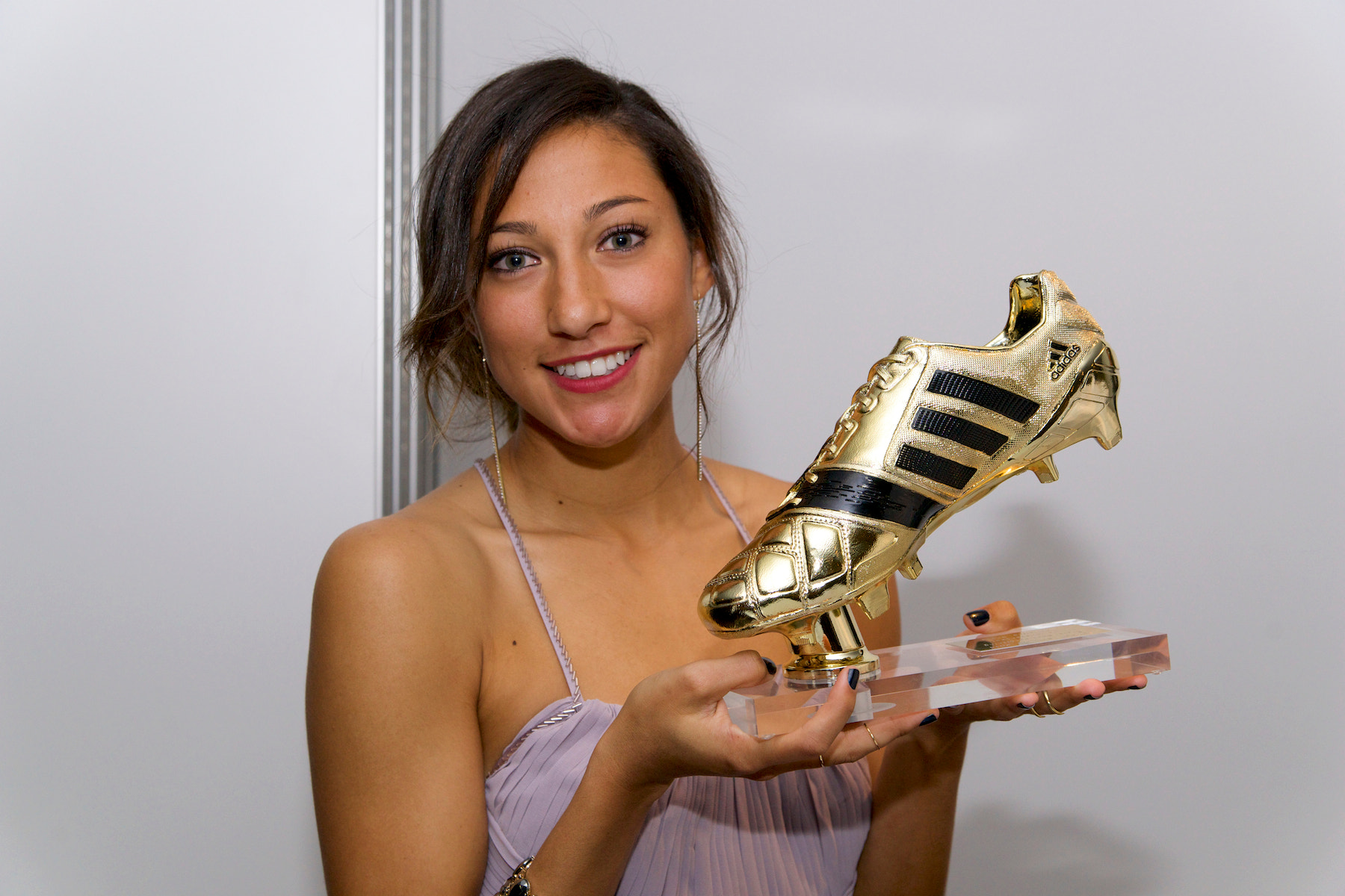 500px provided description: Fotbollsgalan 2013. Foto: Herman Caroan f?r Capishe.se [#Ericsson Globe ,#Tyres? ,#Fotbollsgalan]